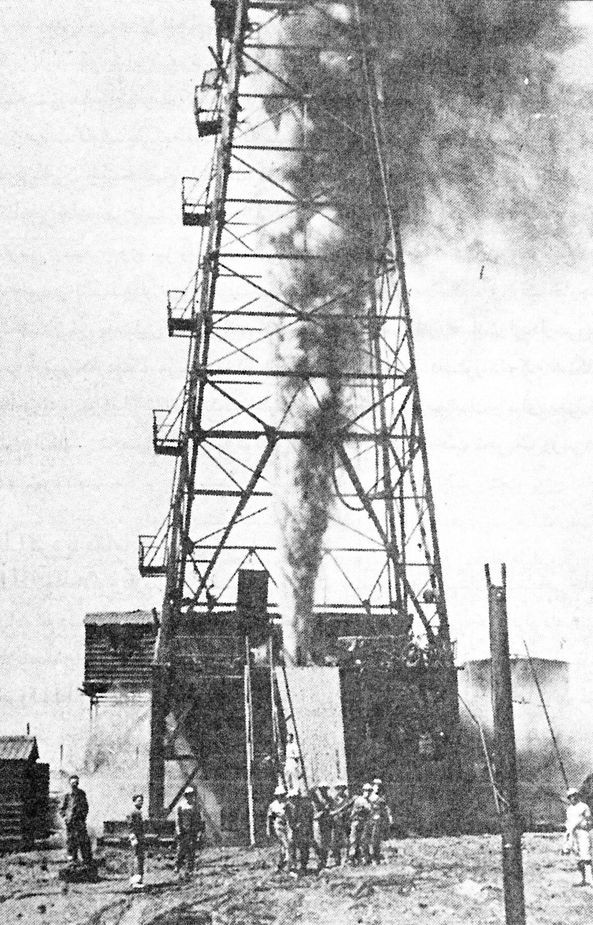 AIOC oil, Masdsched Soleyman